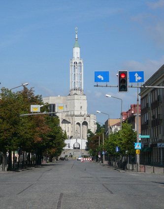 View from main street - Białystok Kościół Crystusa Króla i św. Rocha (Church Christ the King and St. Roch) 1927